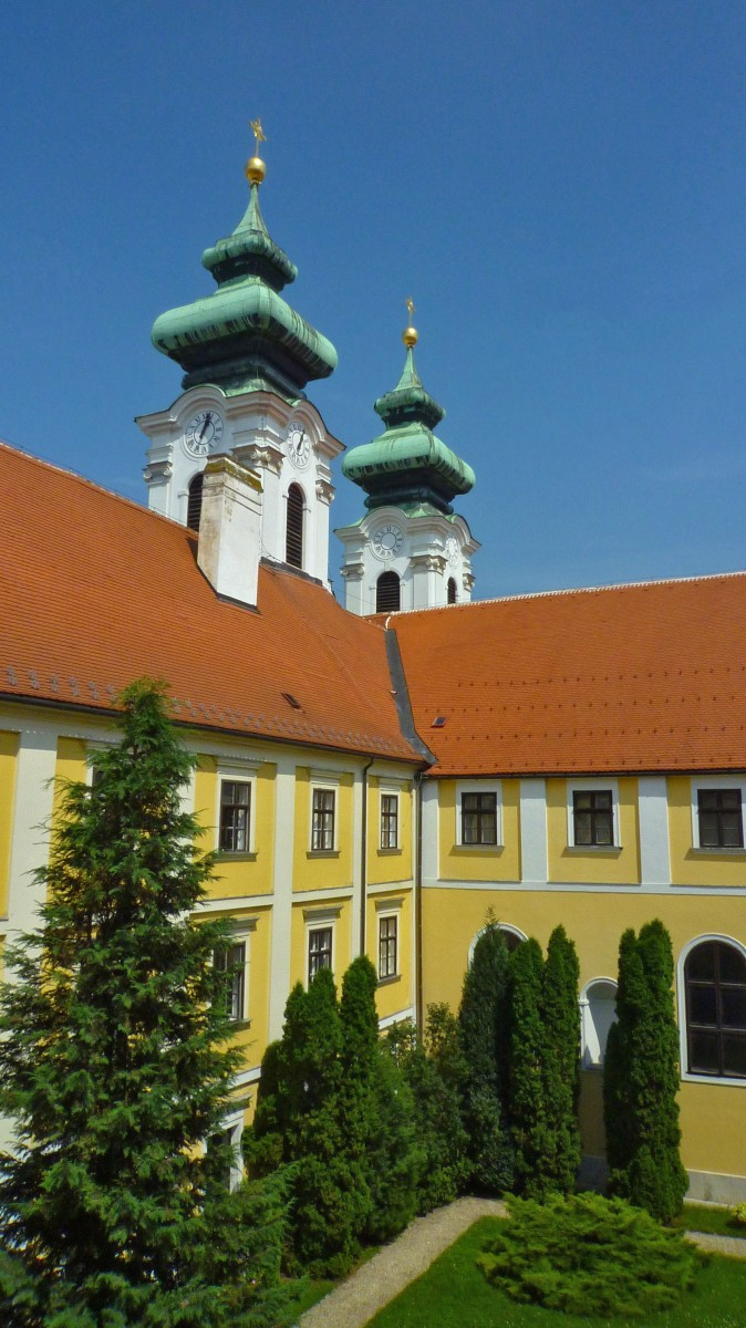 The Benedictine abbey of Győr